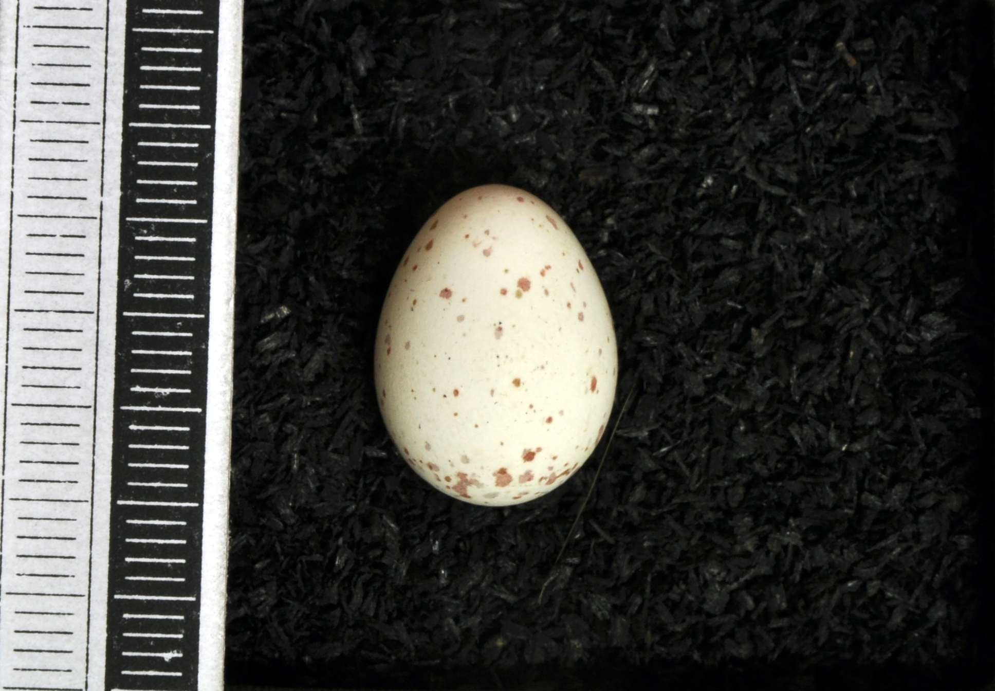 Sombre tit Poecile lugubris , egg, Coll. Museum Wiesbaden